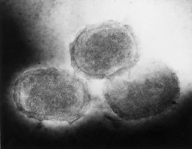 ID#: 196 Description: Transmission electron micrograph of poxvirus of molluscum contagiosum Transmission electron micrograph of poxvirus of molluscum contagiosum. Content Providers(s): CDC Creation Date: 1980 Copyright Restrictions: None - This image is in the public domain and thus free of any copyright restrictions. As a matter of courtesy we request that the content provider be credited and notified in any public or private usage of this image.